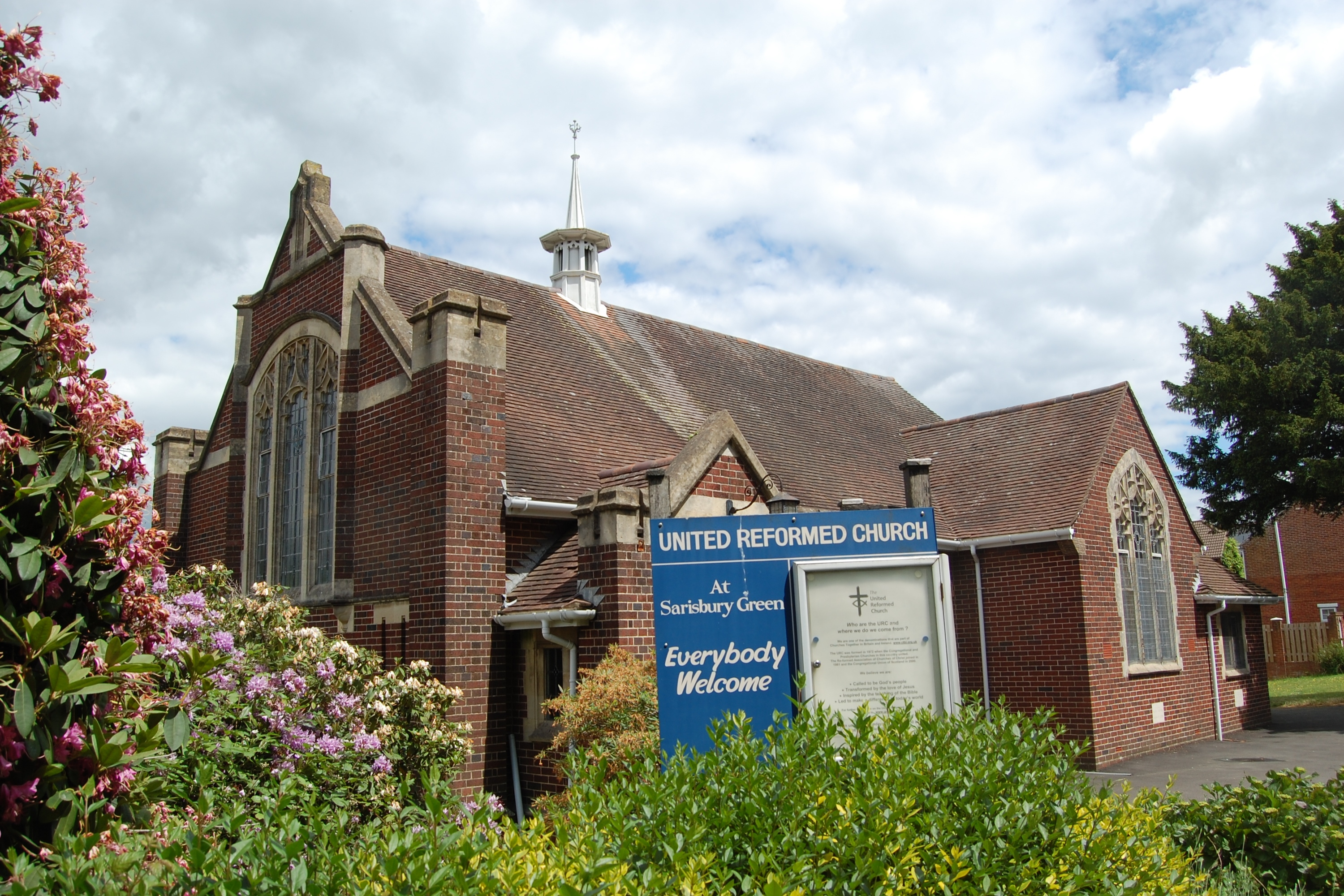 Sarisbury Green United Reformed Church, Bridge Road, Sarisbury, Borough of Fareham, Hampshire, England. Built in 1930 as a Congregational chapel to the design of architecture firm George Baines & Son.